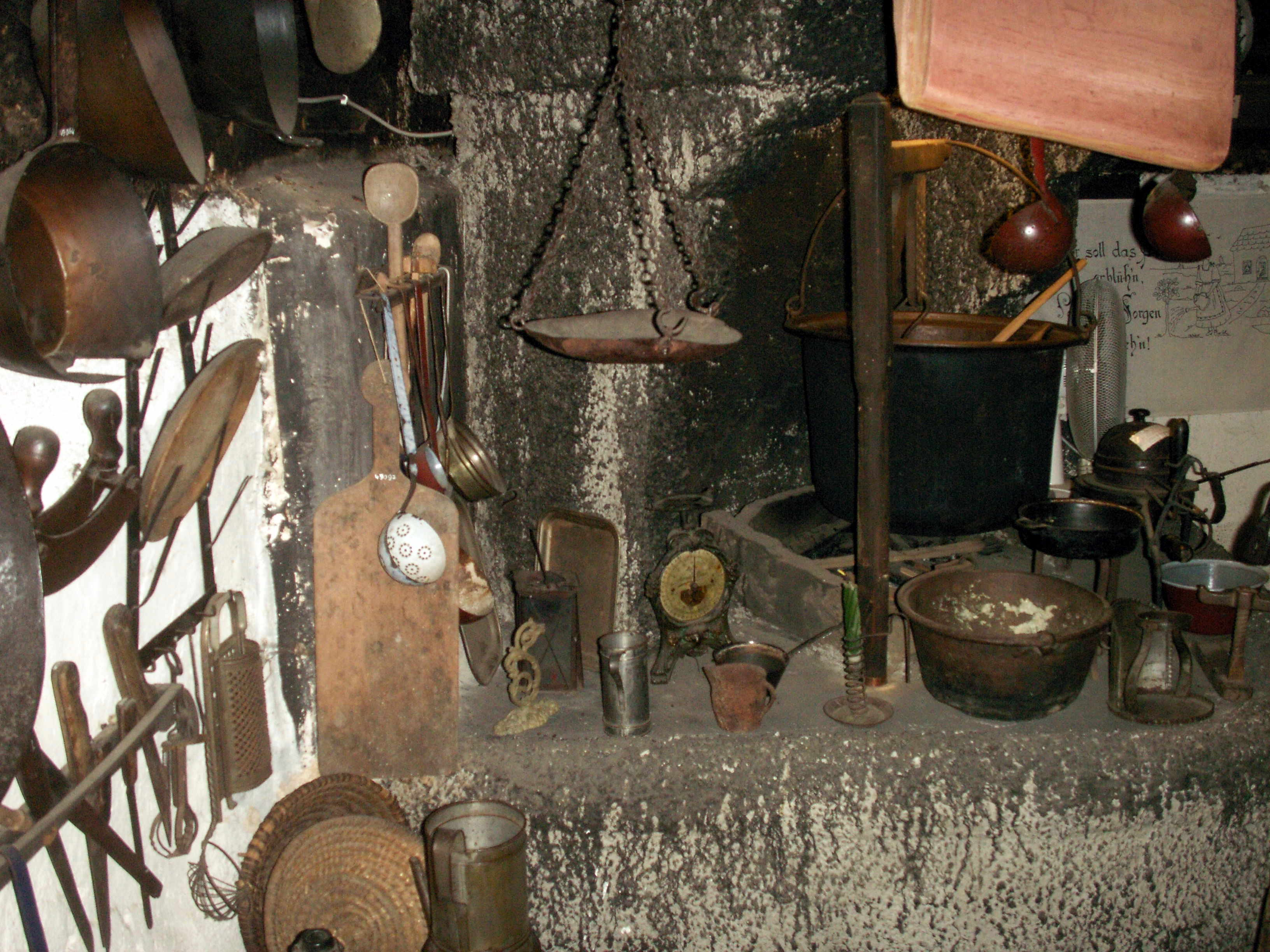 Black kitchen with cooking utensils in the old fisherman house near lake Millstatt in Seeboden / Carinthia / Austria / European Union, currently a fisheries museum. The museum was founded in 1980 (2009 closed until mid-2011 of the municipality Seeboden temporarily).